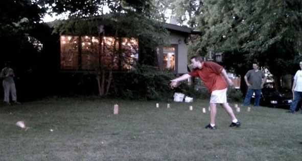 Perfect throwing form in the game of Kubb.